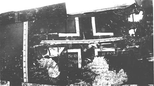 Wing of the Bf-109 after the hit of 20 mm SHVAK shells.